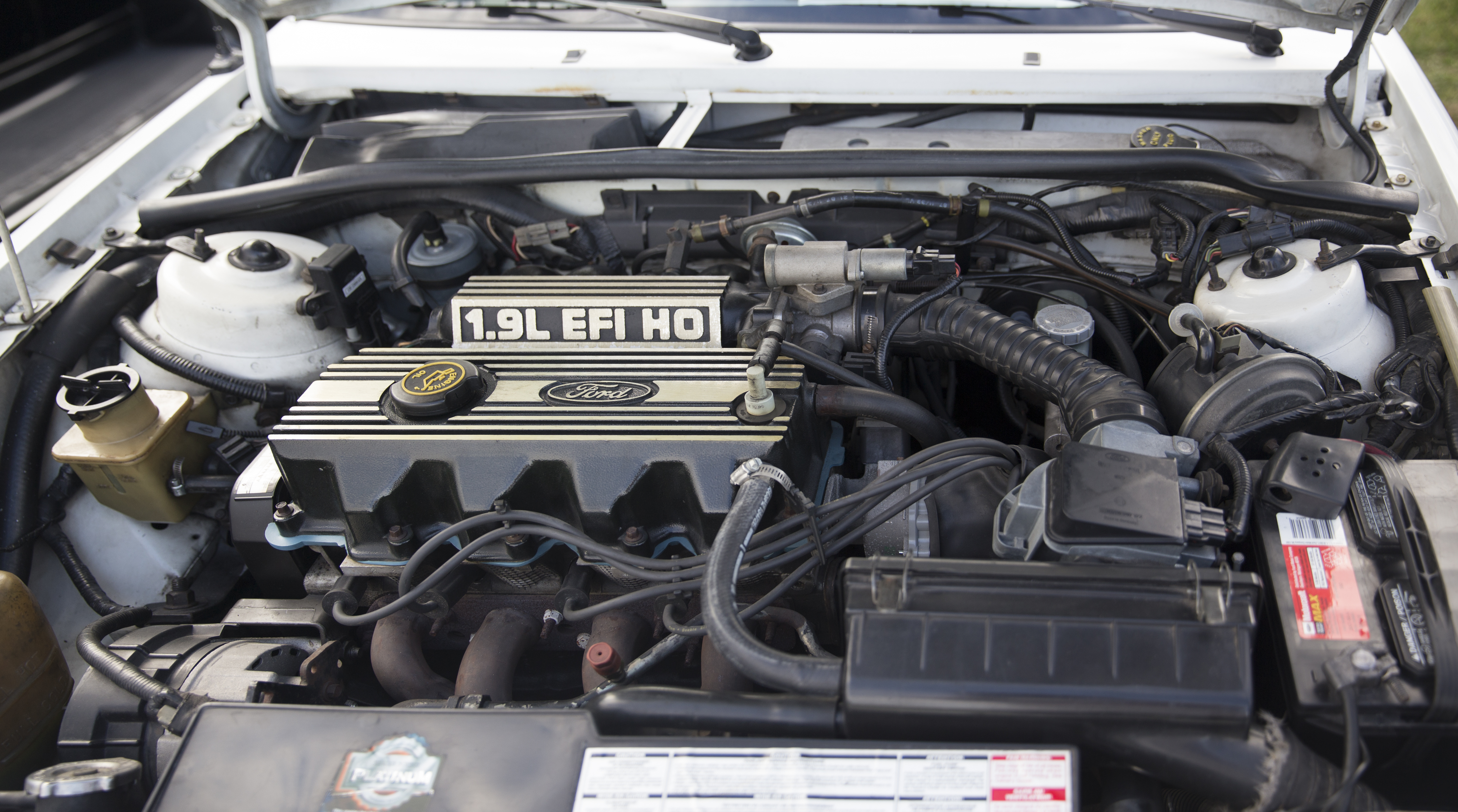 The 1.9-liter "HO" engine in a 1990 Ford Escort GT in the show area at Hershey 2019. Original owner, near perfect condition.